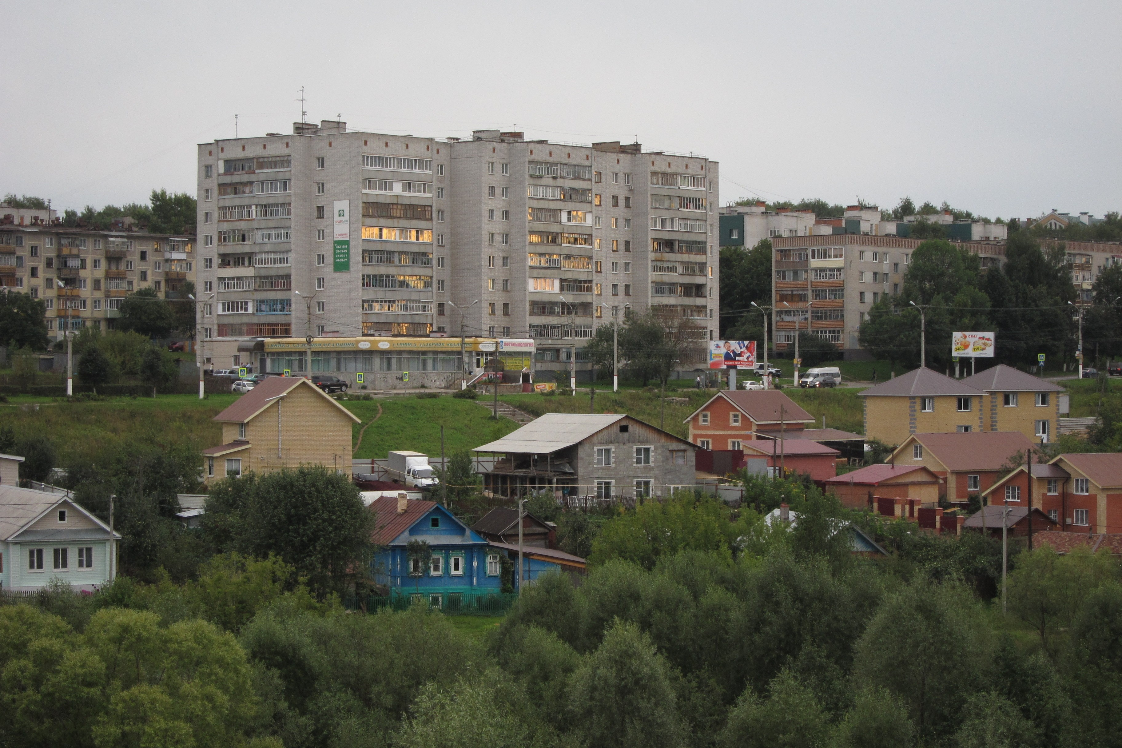 Village Protopopiha. Cheboksary, Russia Чӑвашла: Протопопиха ялӗ, Шупашкар хули